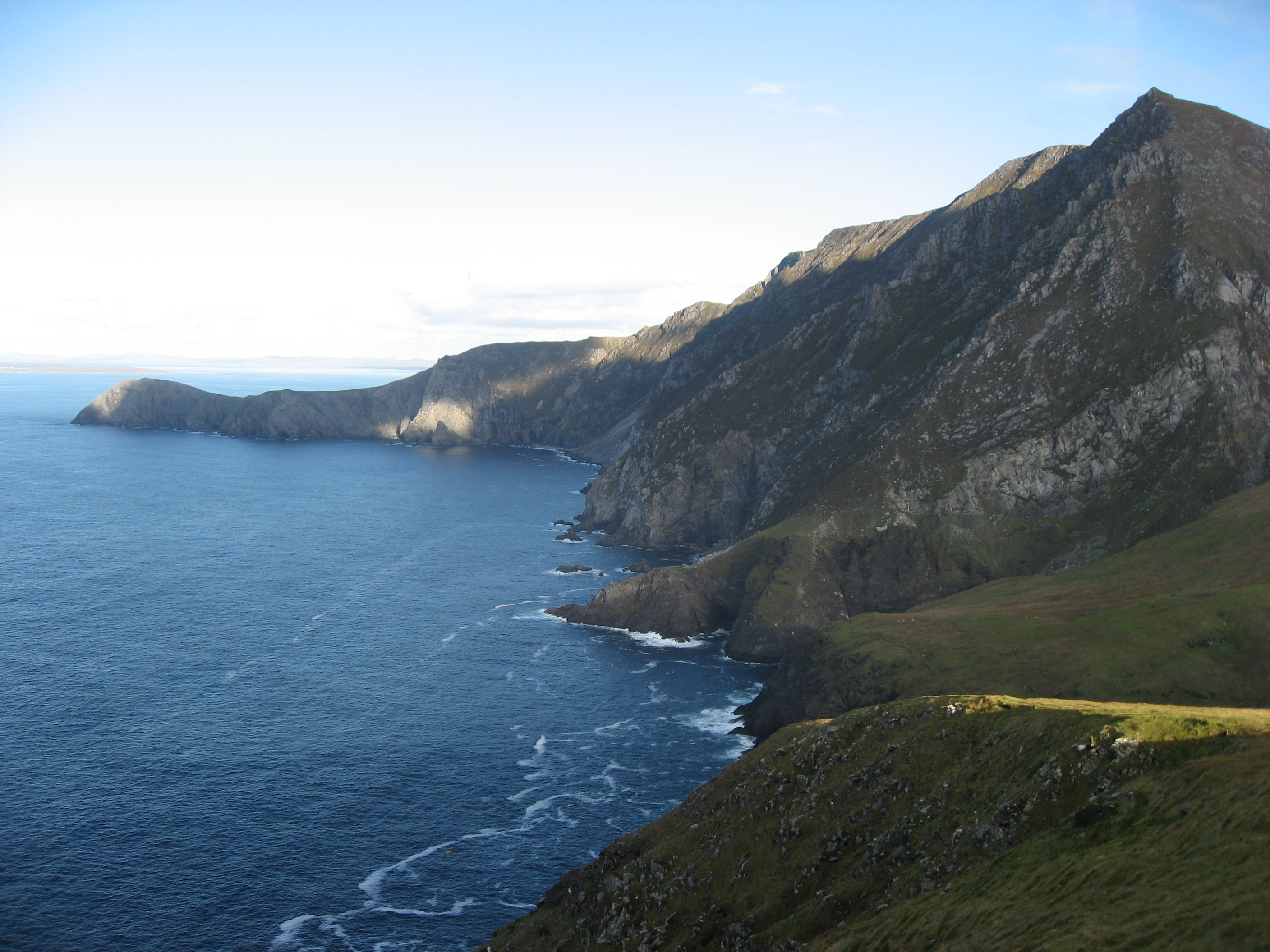 Highest sea cliffs in Ireland